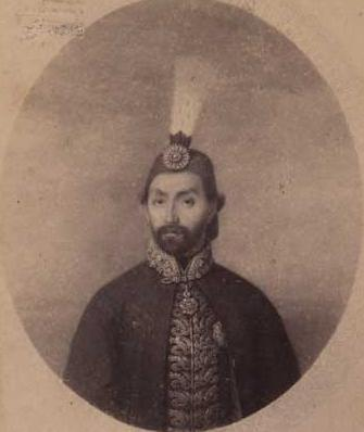 Abdullah freres